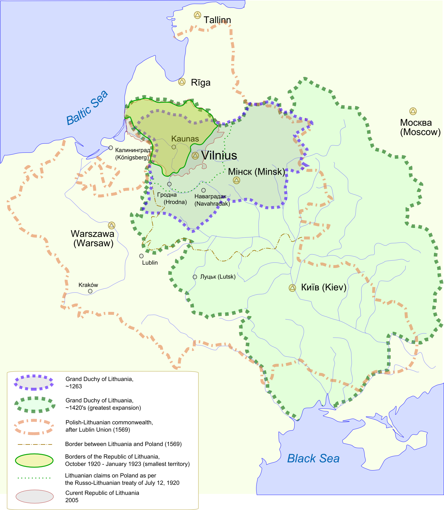 Lithuania history: 13th century (during the reign of Mindaugas) 15th century (during the reign of Vytautas the Great) Polish–Lithuanian Commonwealth and border between its parts Border of 1923 (the area of Vilnius being a part of Poland) Modern Republic of Lithuania